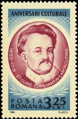 Constantin-Cantacuzino